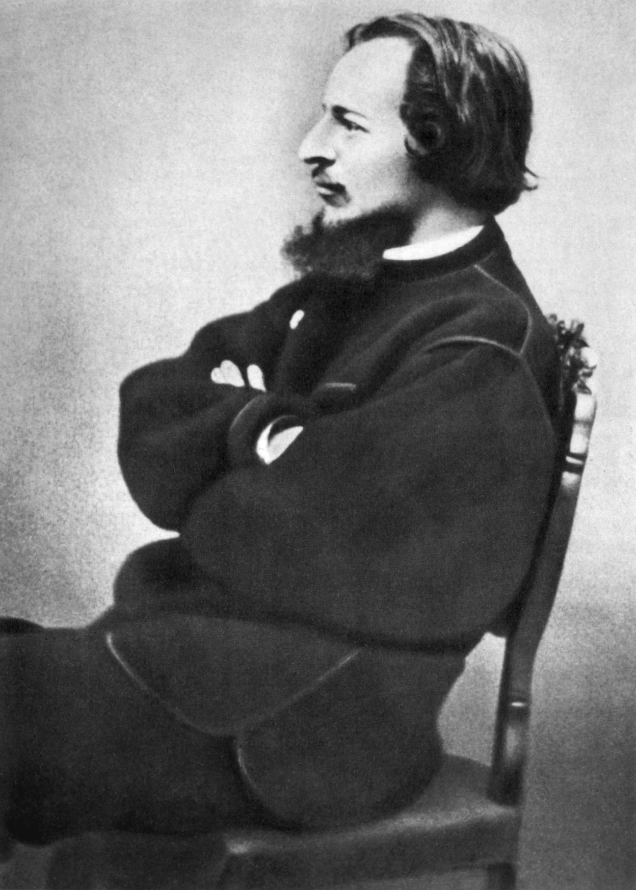 Viktor Hartmann, a Russian architect and designer (1834-1873)